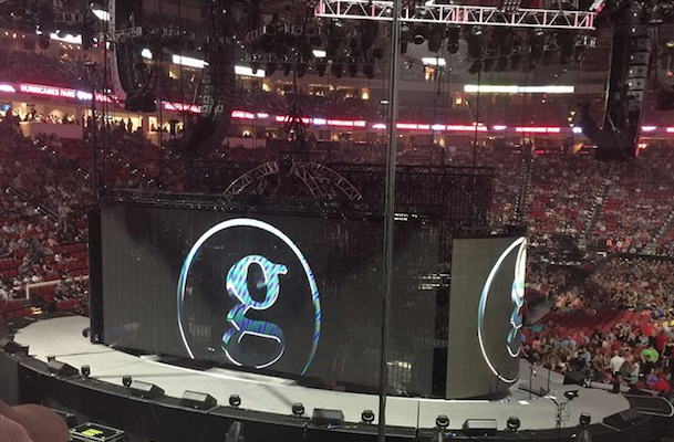 Screen from Garth Brooks' world tour, Raleigh, NC